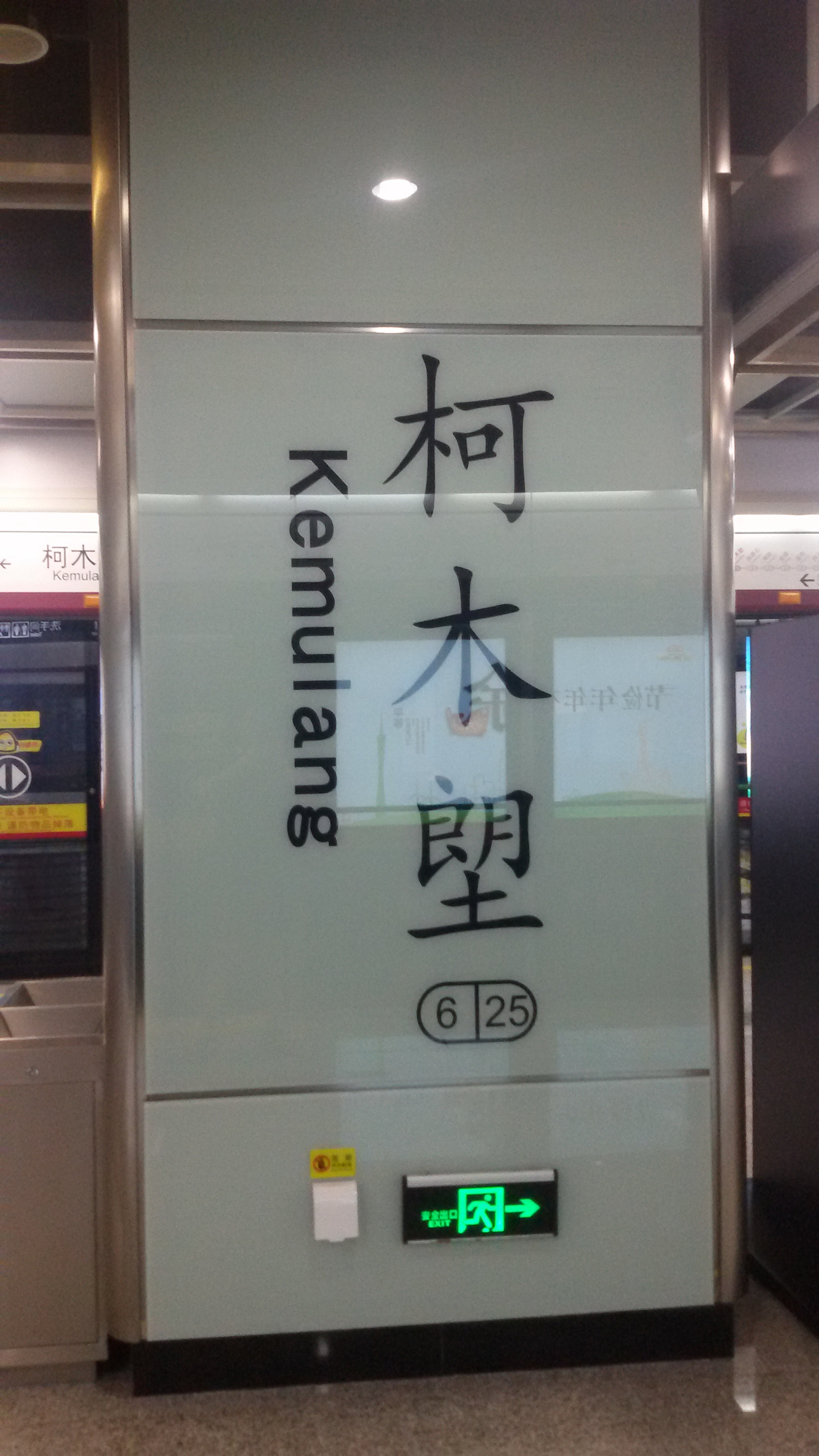 WORD on PILLAR for Kemulang Station in Guangzhou Metro